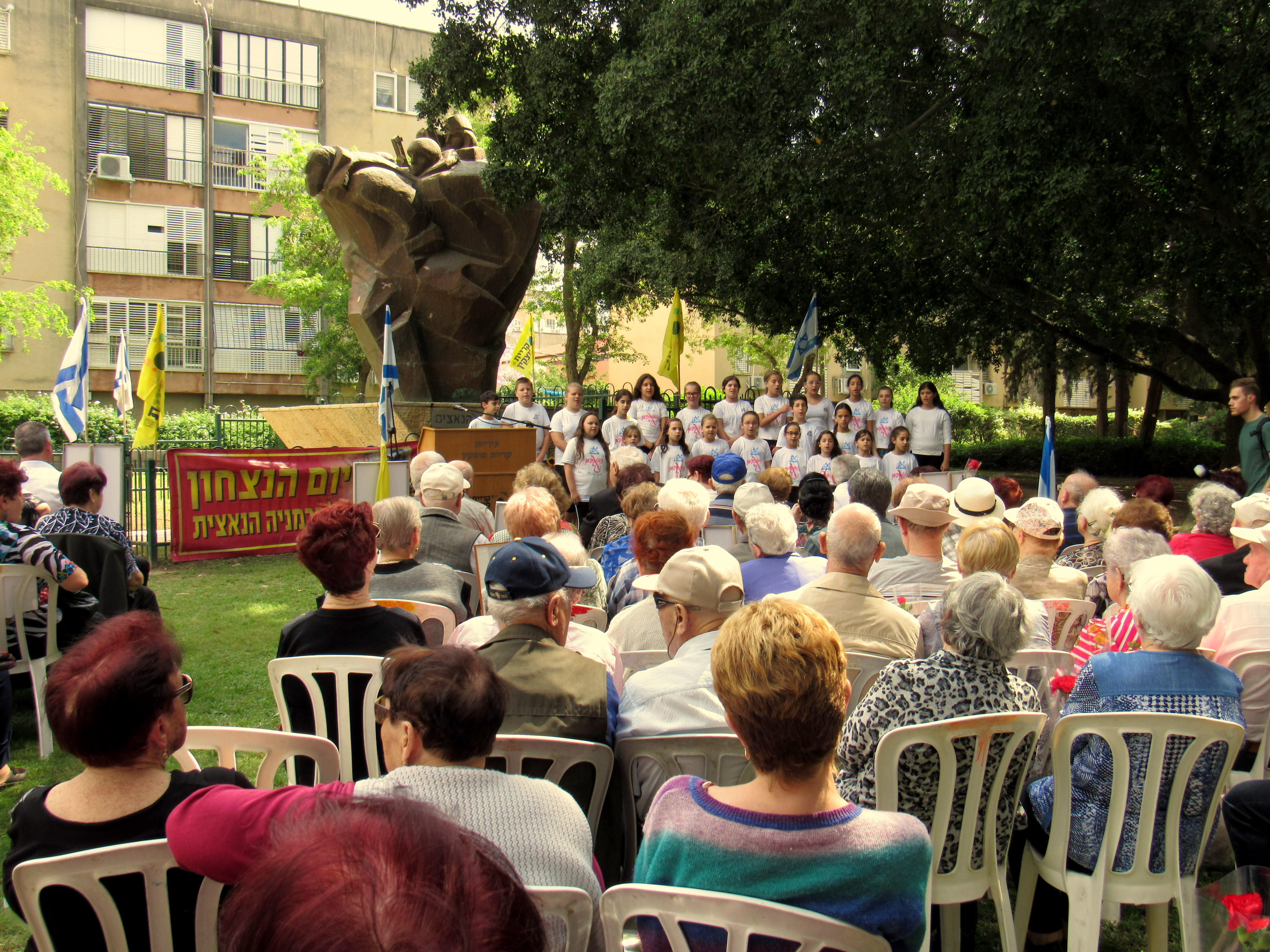 Choir pupils of the local Weizmann Elementary singing during the Victory Day ceremony at Golda Park in Kiryat Motzkin, commemorating the surrender of Nazi Germany at the end of WWII; May 9 2018